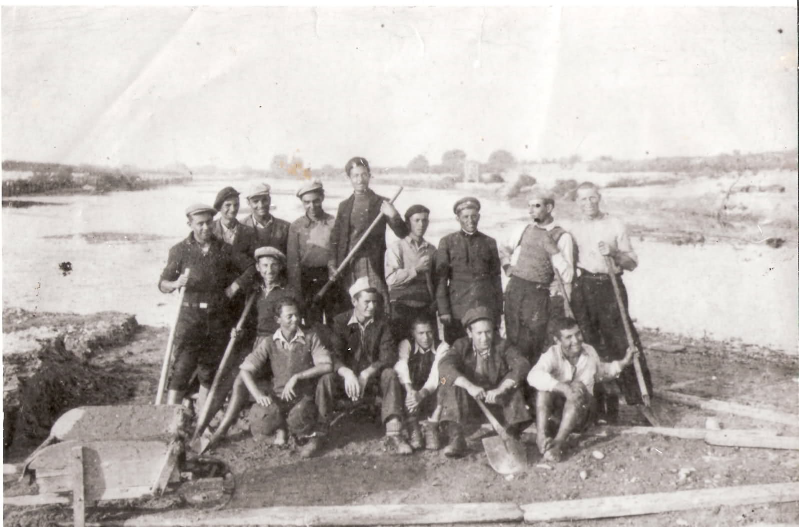 Unfree labour workers from plovdiv during WW2. Credit: Courtesy of Yossi Nevo .